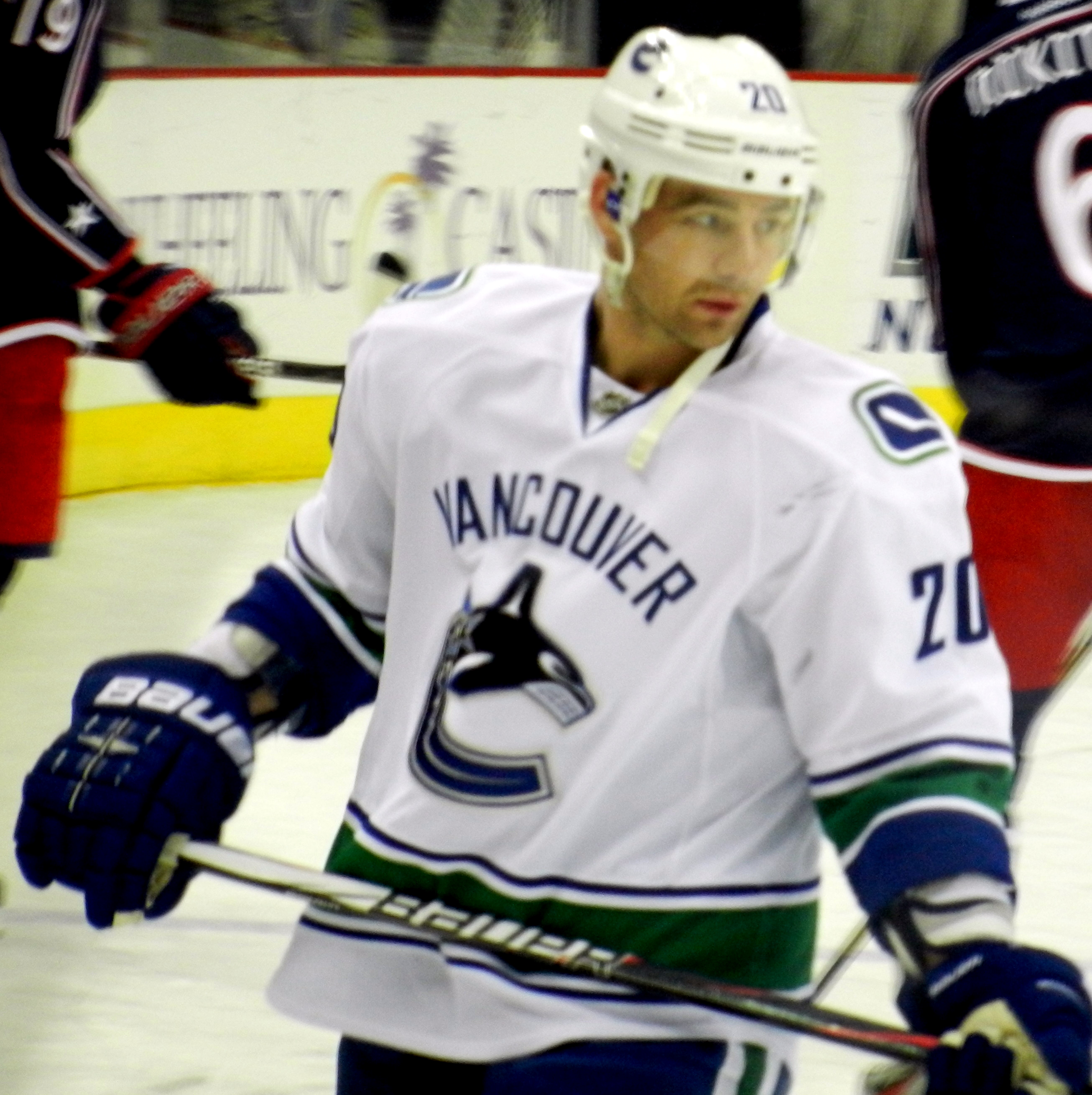 Chris Higgins playing for the Vancouver Canucks during warm-up of a game vs. the Columbus Blue Jackets in the 2011-12 season. Vancouver lost the game 2-1 in a shoot-out